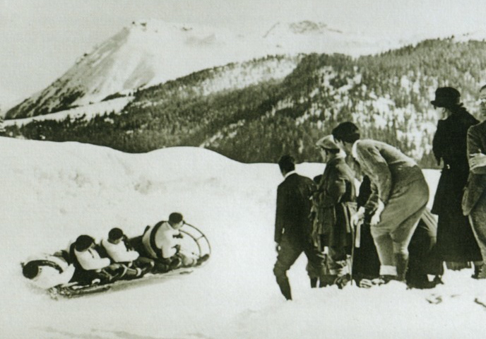 race on bobsleigh and luge run Arosa, Switzerland